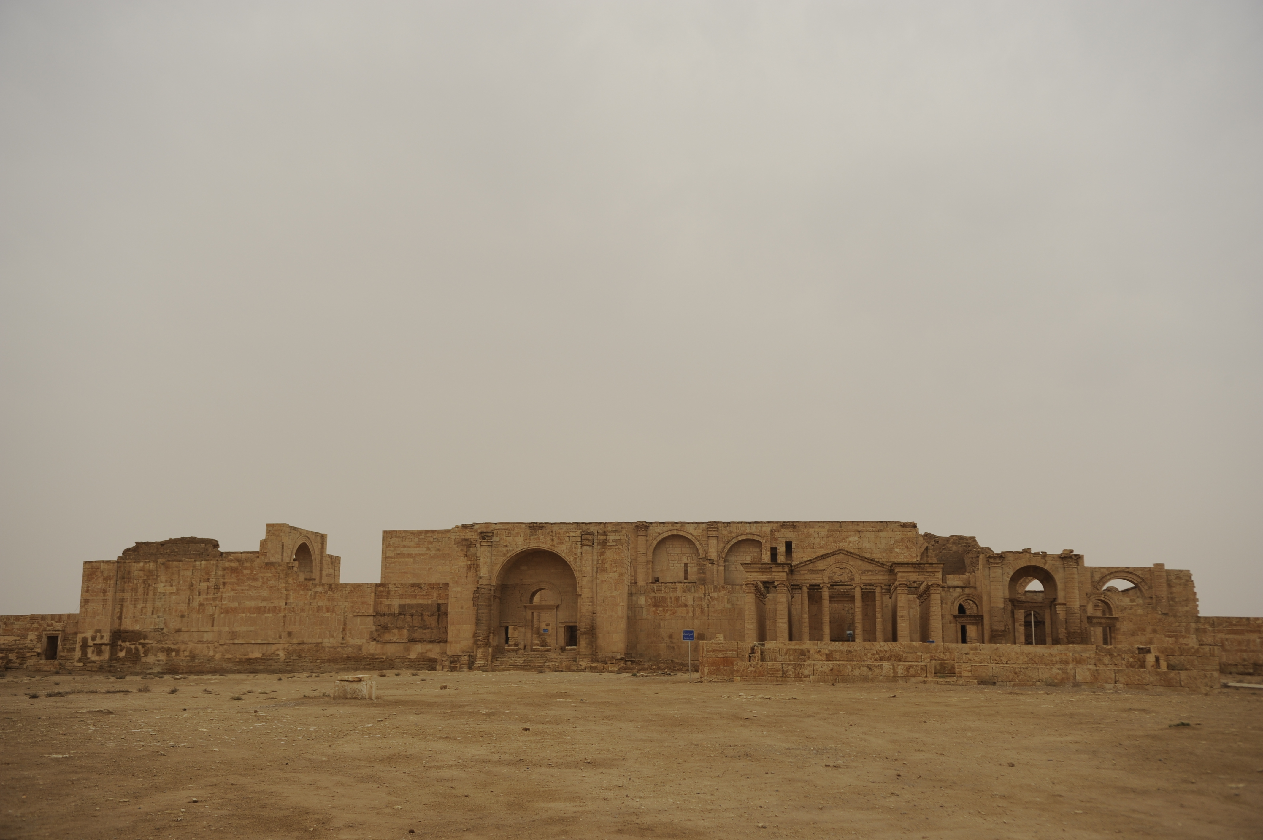 Members of the Provincial Reconstruction Team and representatives of United Nations Educational, Scientific, and Cultural Organization visit what once was a maeeting hall in the Shrine of Hatra, in Hatra, Iraq, Nov. 20. Hatra is one of three areas in Iraq that is a World Heritage site. UNESCO works to create the conditions for genuine dialogue based upon respect for shared values and the dignity of each civilization and culture. (11.20.2008)